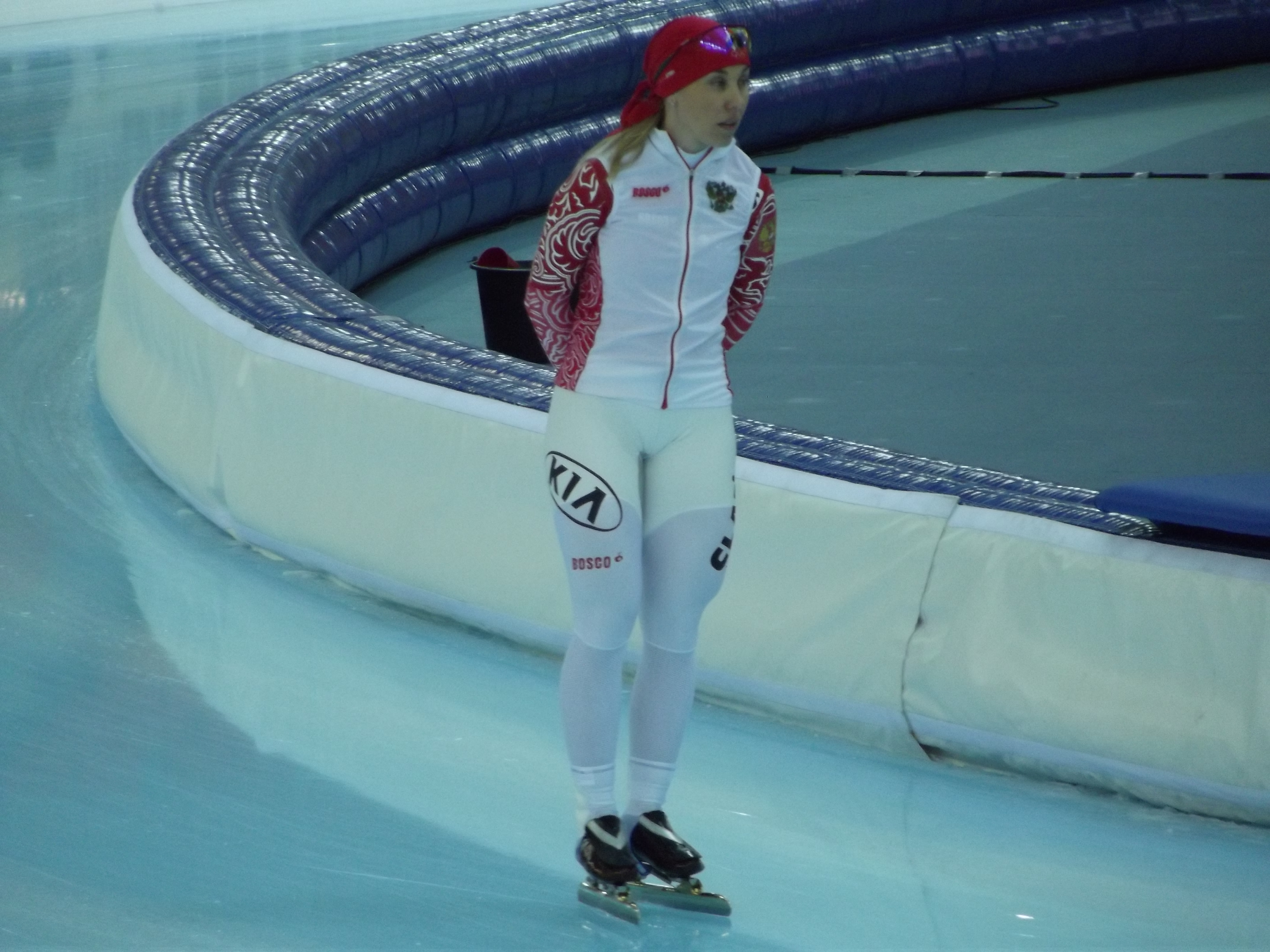 2013 World Single Distance Speed Skating Championships